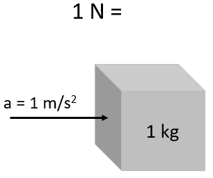 Illustration of one Newton: the force needed to accelerate one kg of mass by one meter per second per second.